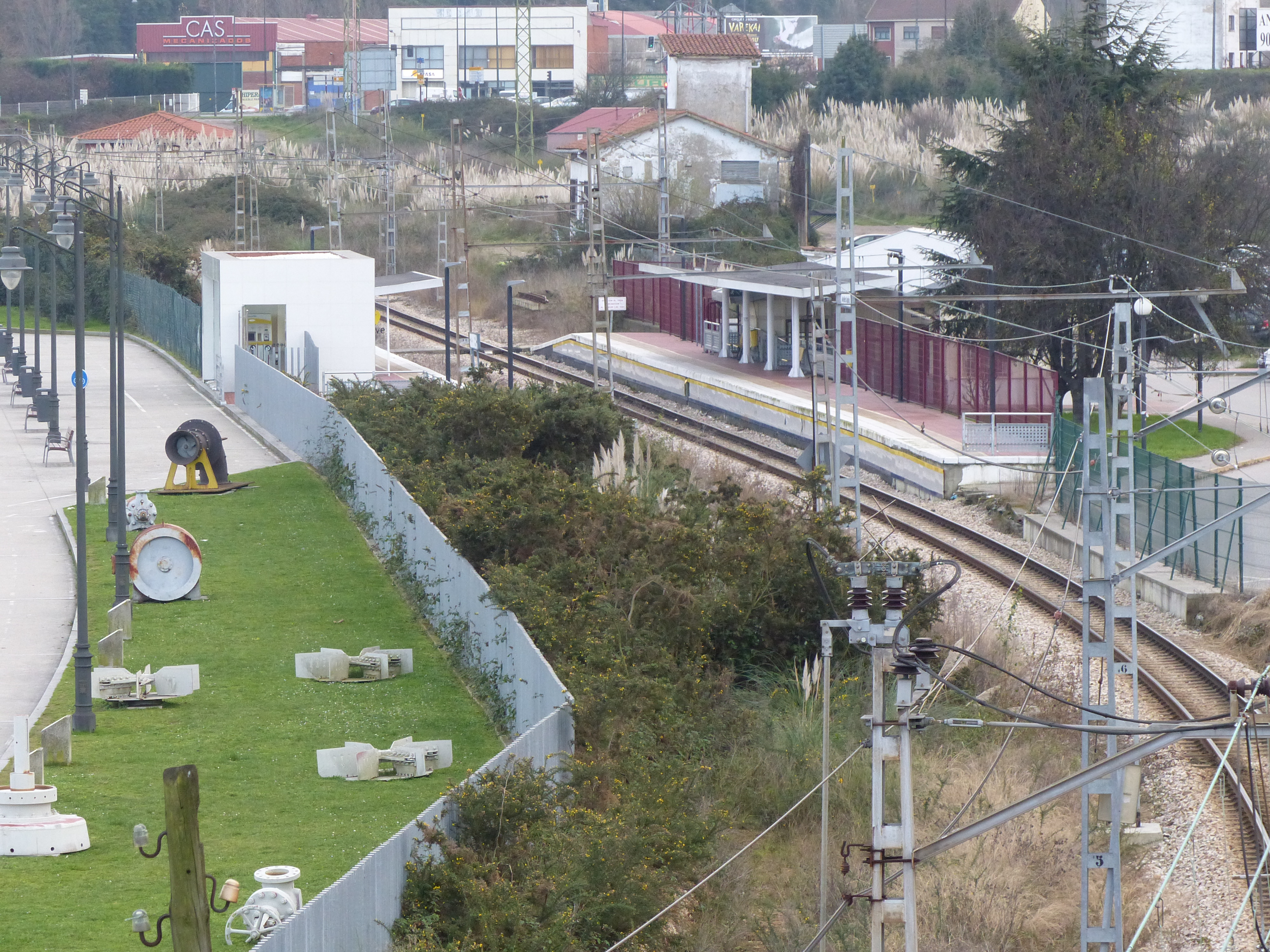 Avilés Apeadero railway station